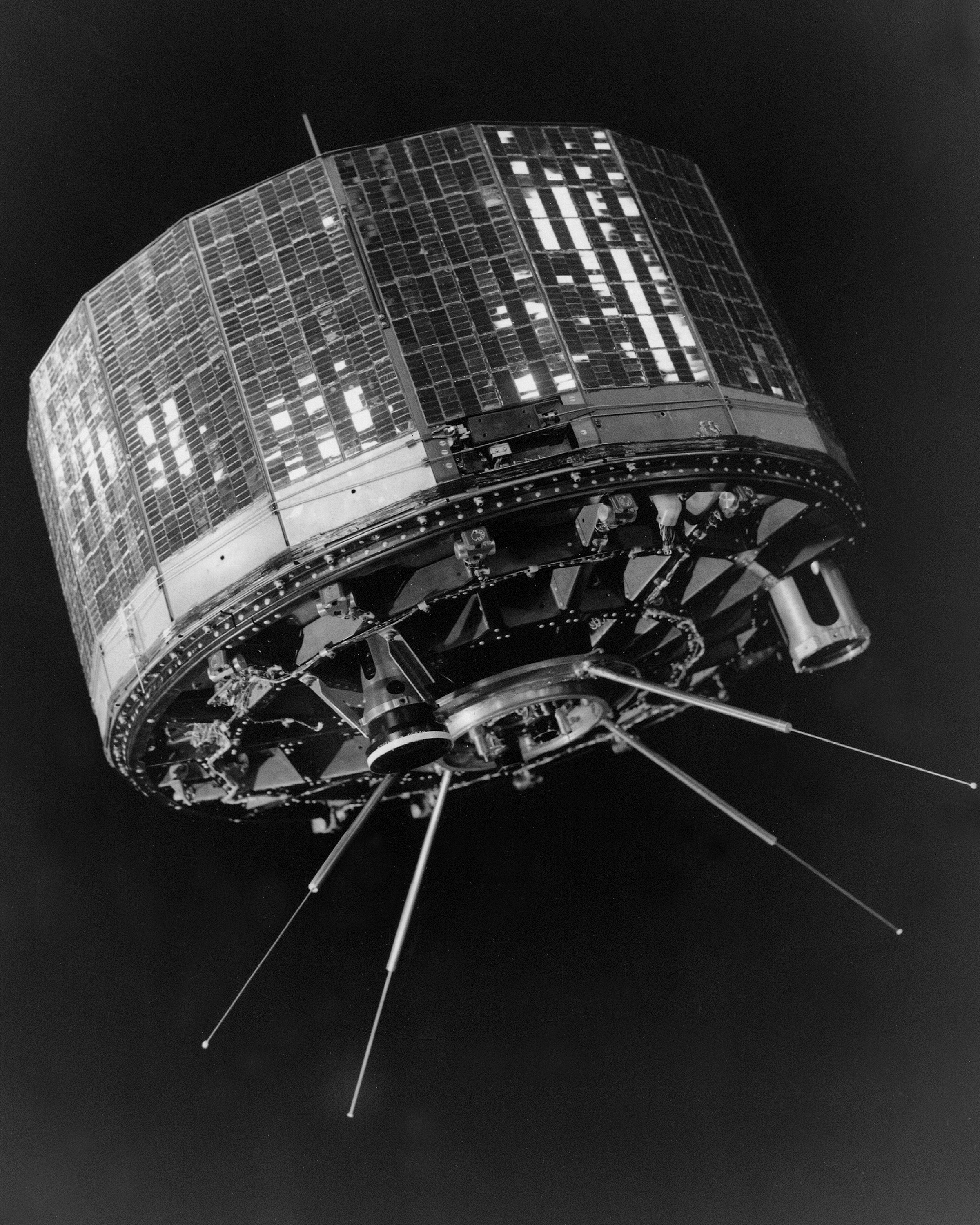 TIROS VI satellite used in the Parade of Progress show at the Public Hall, Cleveland, Ohio.